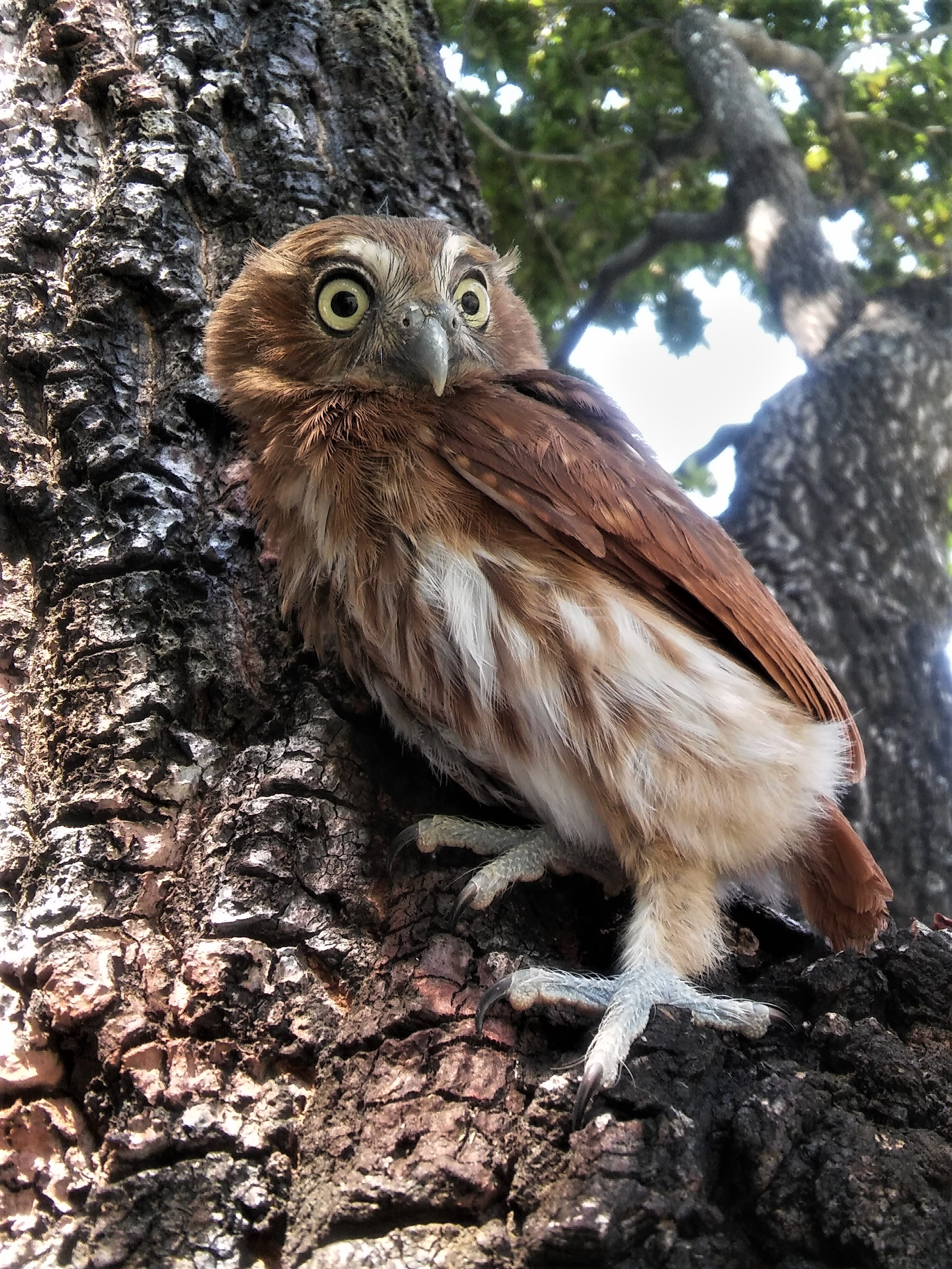 Flying chick of a Pavita ferruginea venturing to give its first flights after leaving the nest - Maracay, Venezuela